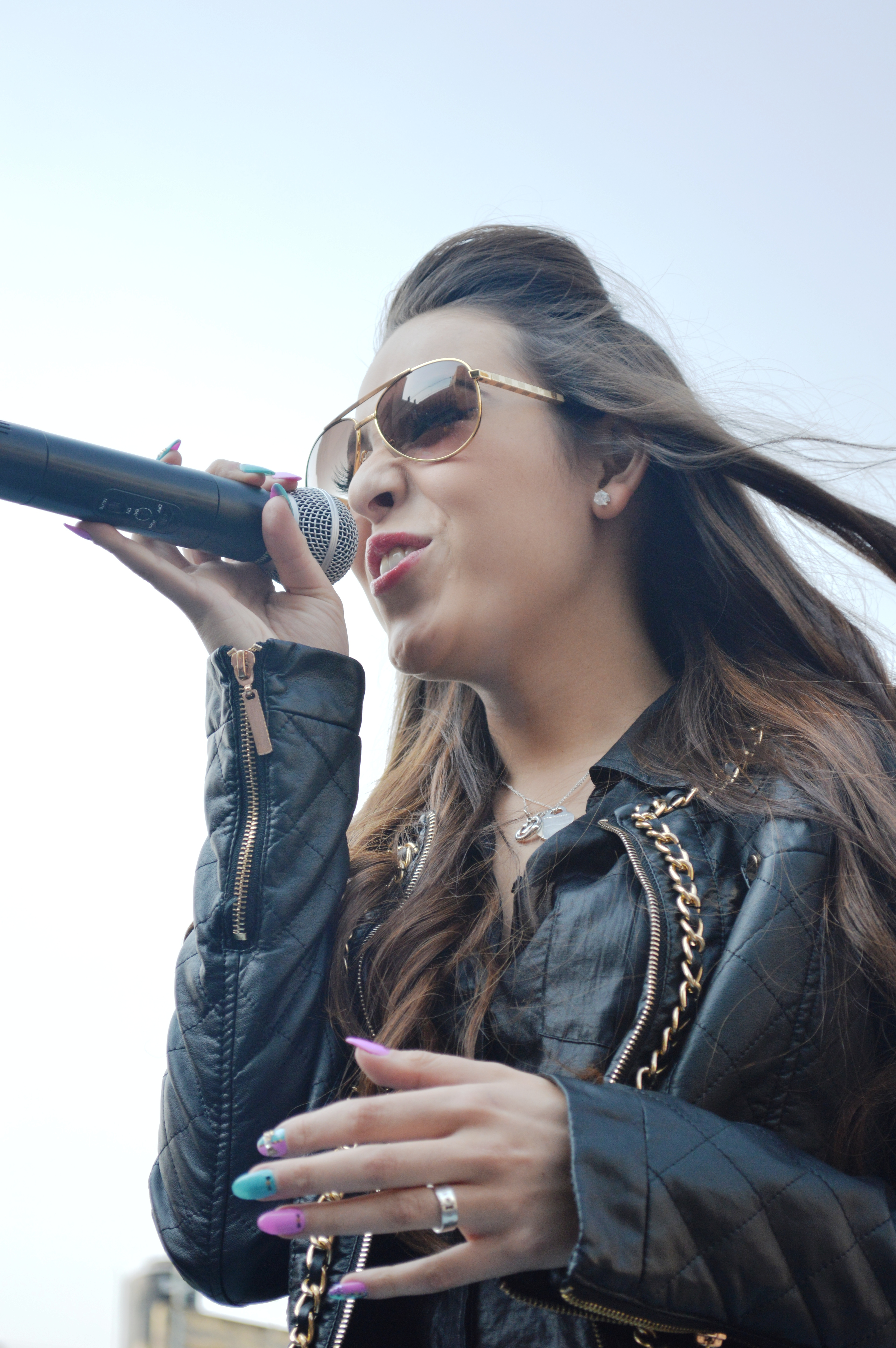 Danna Paola appearing at a community event in Colonia Obrera in Mexico City sponsored by the Fundación Expresa